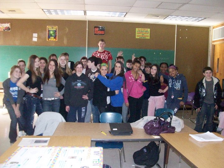 Teens posing for a picture